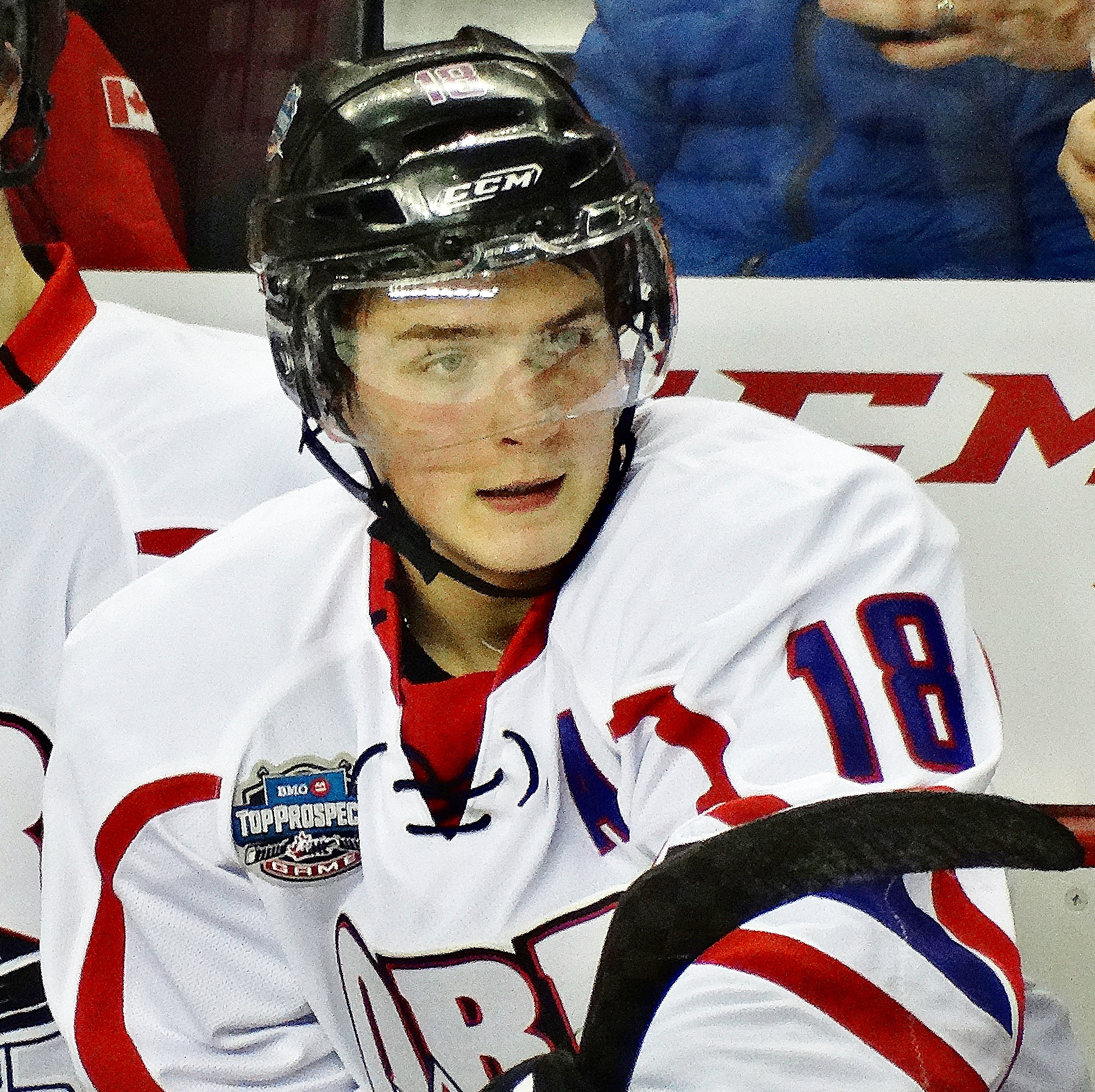 Jake Virtanen, Canadian ice hockey winger